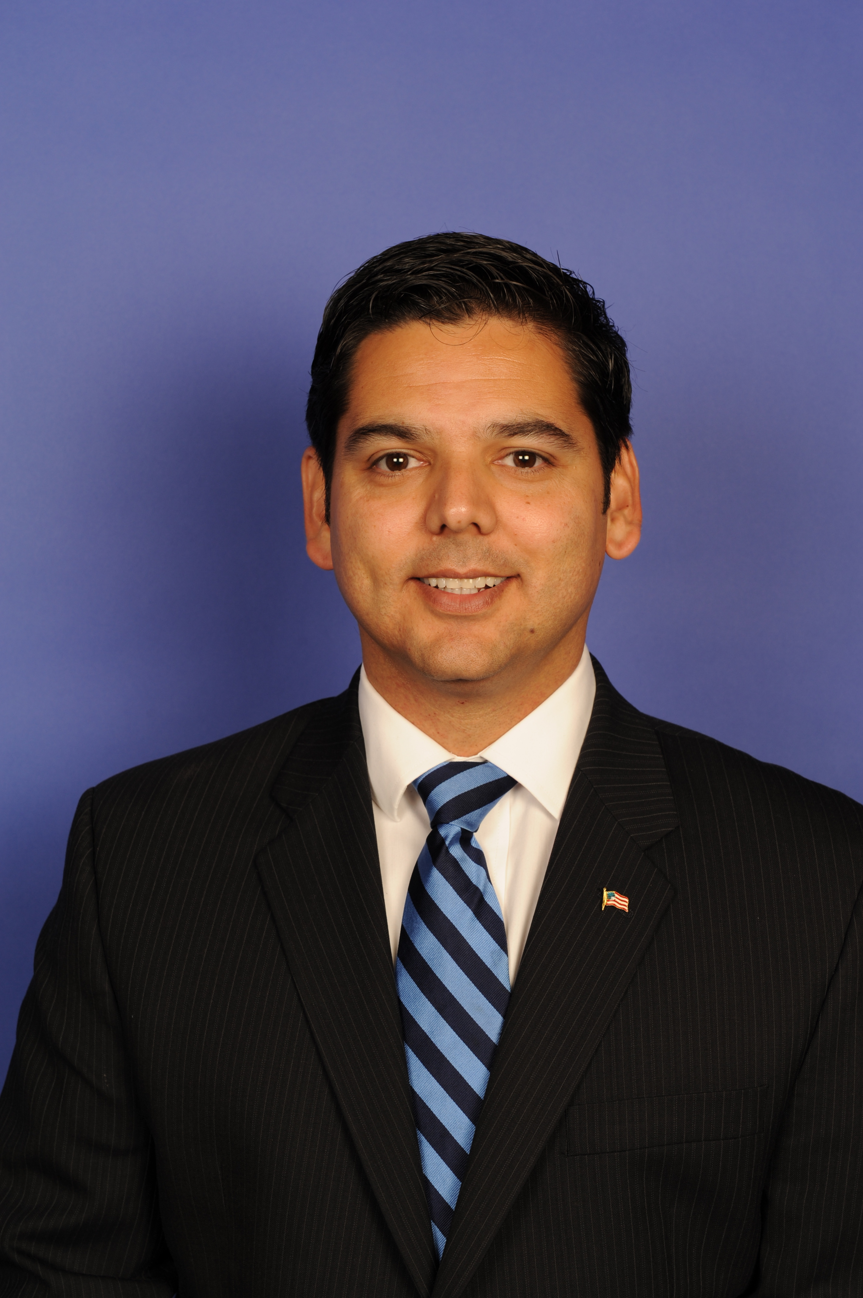 Dr. Raul Ruiz, 2012